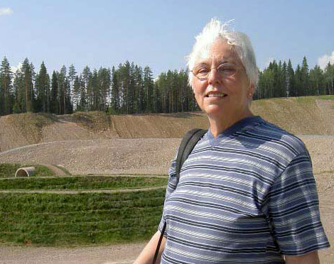 Nancy Holt at the Up and Under in 2003, the municipality of Hämeenkyrö, Finland